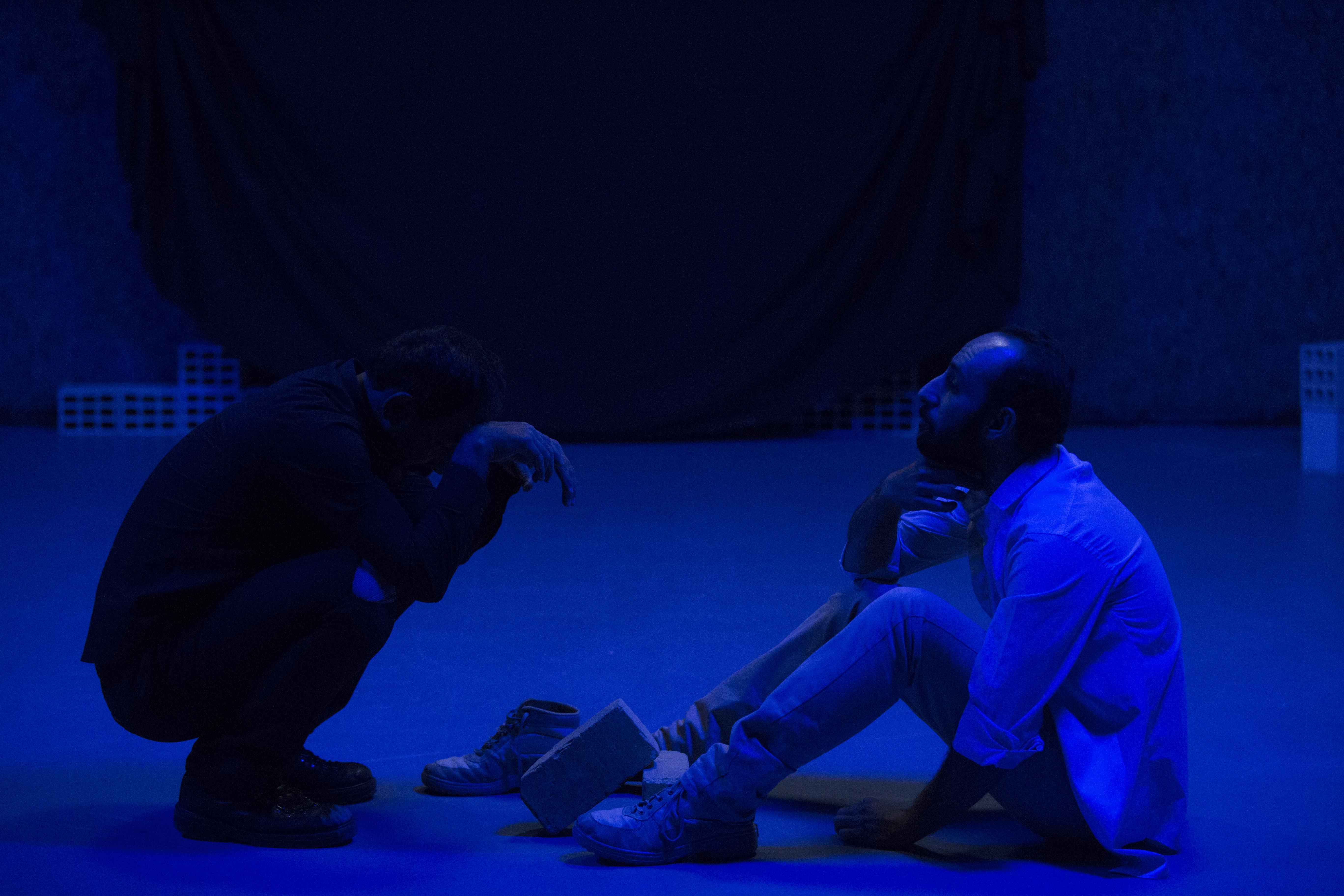 “Hamlet” is a laboratory performance and Garage Theater’s latest research into the field of dramatic performance: rewriting Shakespeare’s Hamlet. The first version of this performance was created after one year of practice and rehearsals. Hamlet had its premiere in Qom. This work is continuously being developed. Garage’s Hamlet is disturbing the tranquillity, not fearing the unseen, and coping with the fault-finding eyes of the public. “Fighting, fighting, fighting, fighting, attacking, squashing someone’s bones, breathing heavily in the smell of blood…” In a part of Shakespeare‘s play, Hamlet, regarding plays and the necessity of their existence, says: Is it not monstrous that players, but in a fiction, in a dream of passion, could force their soul so to their own conceit that from her working all their visage wann’d, tears in their eyes, distraction in their aspect, a broken voice, and their whole function suiting with forms to their conceit? And all for nothing! The players cannot keep counsel; they’ll tell all.